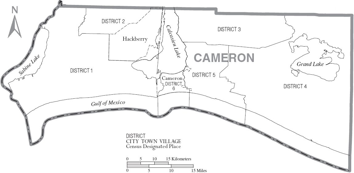 Map of Cameron Parish, Louisiana, United States with municipal and district boundaries